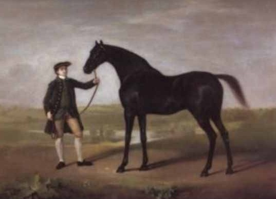 Painting of Snap. Unknown artist.